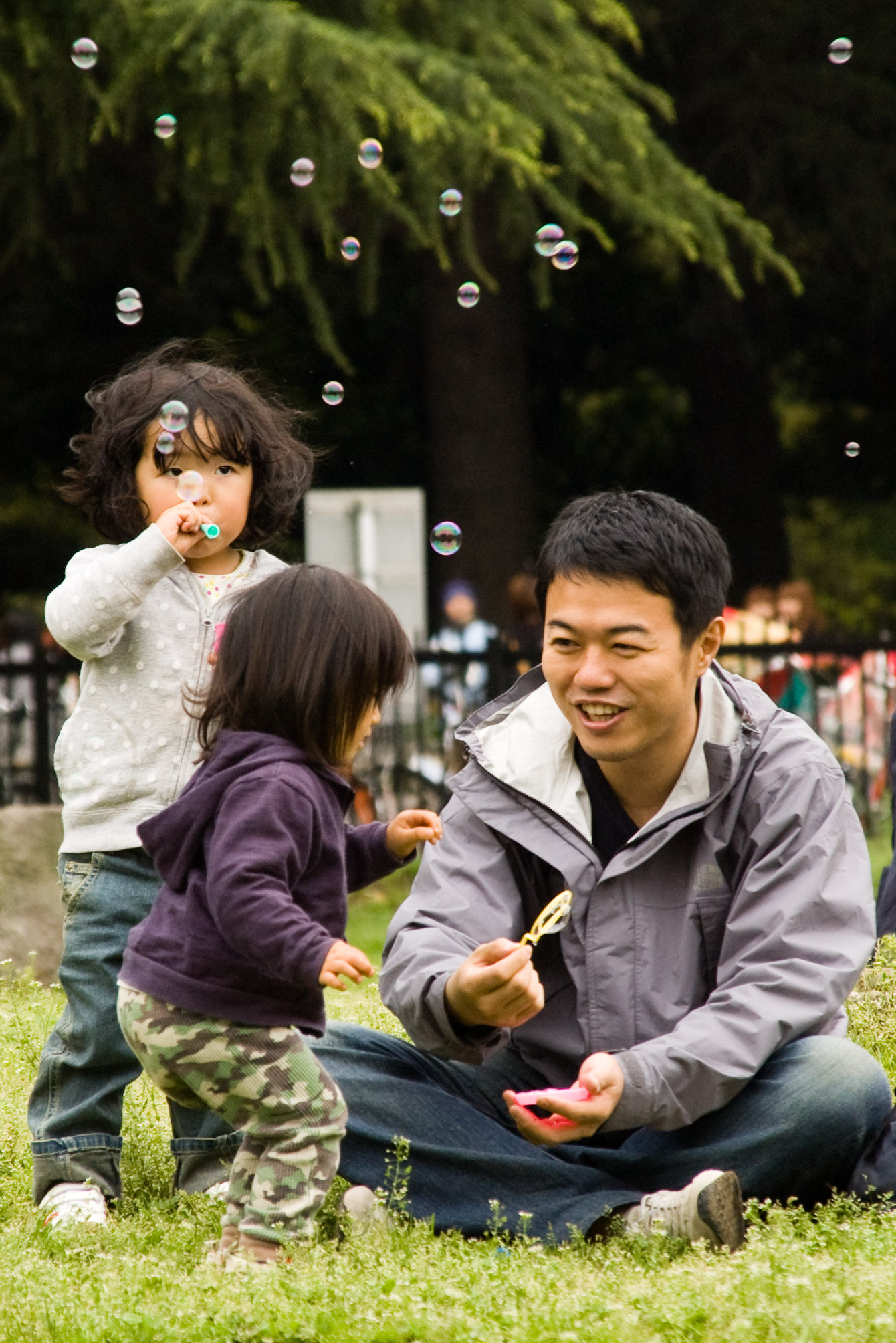 A father and his children.